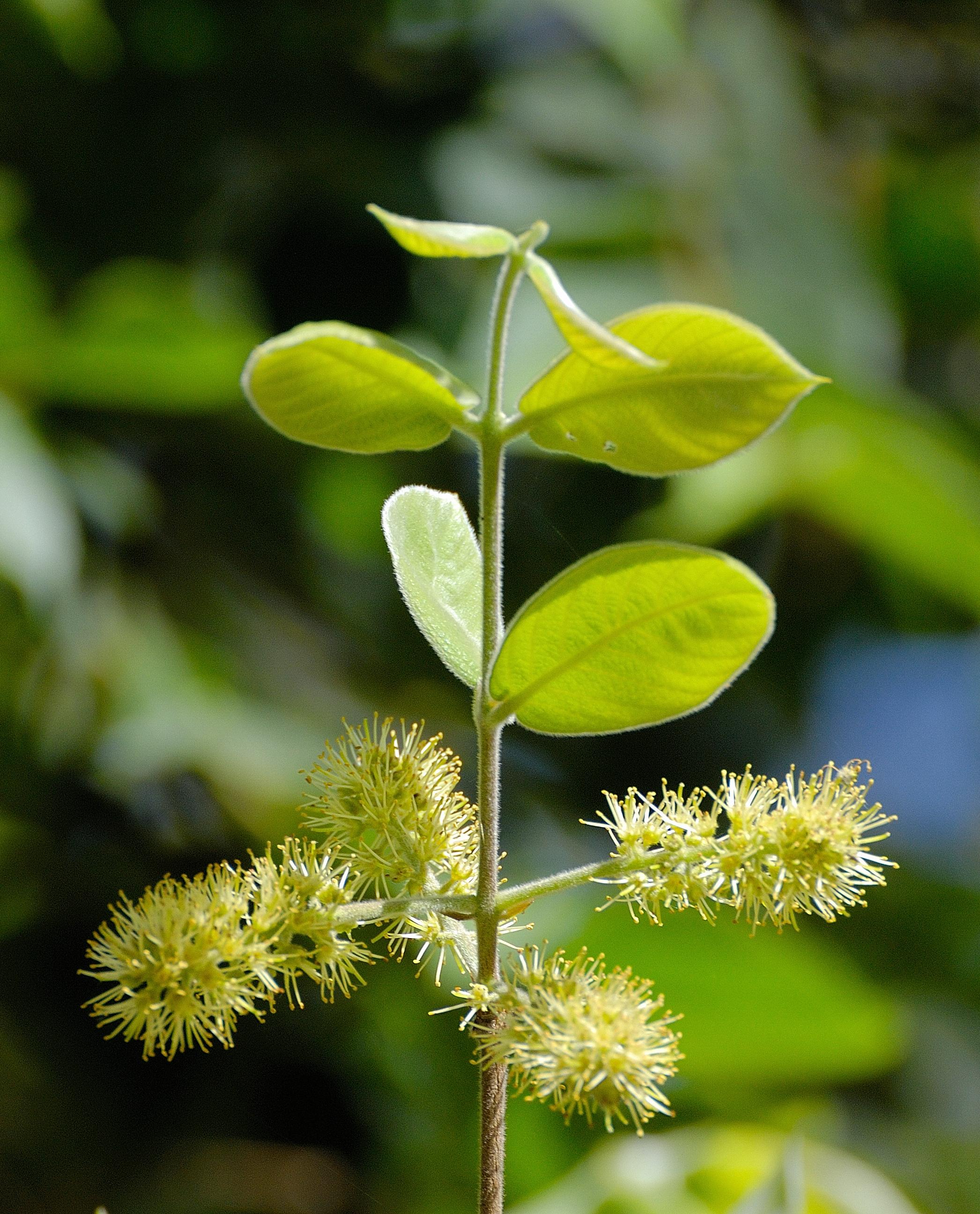 Spring foliage and inflorescenses of a Velvet Bushwillow in Jan Celliers Park, Pretoria